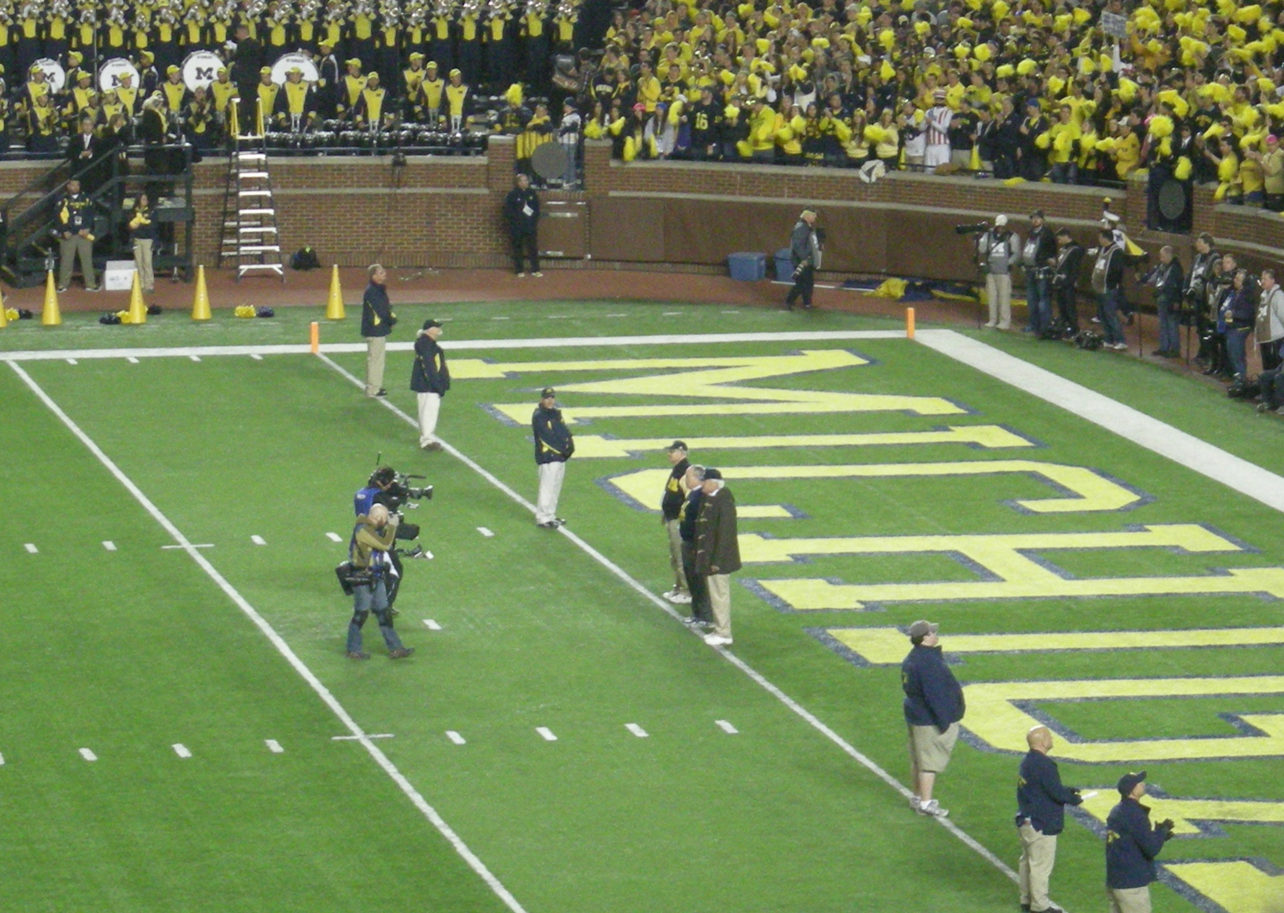 The 1959 Michigan team being honored during the Penn State Nittany Lions vs. Michigan Wolverines football game at Michigan Stadium in Ann Arbor, Michigan (United States). Michigan won 18–13.